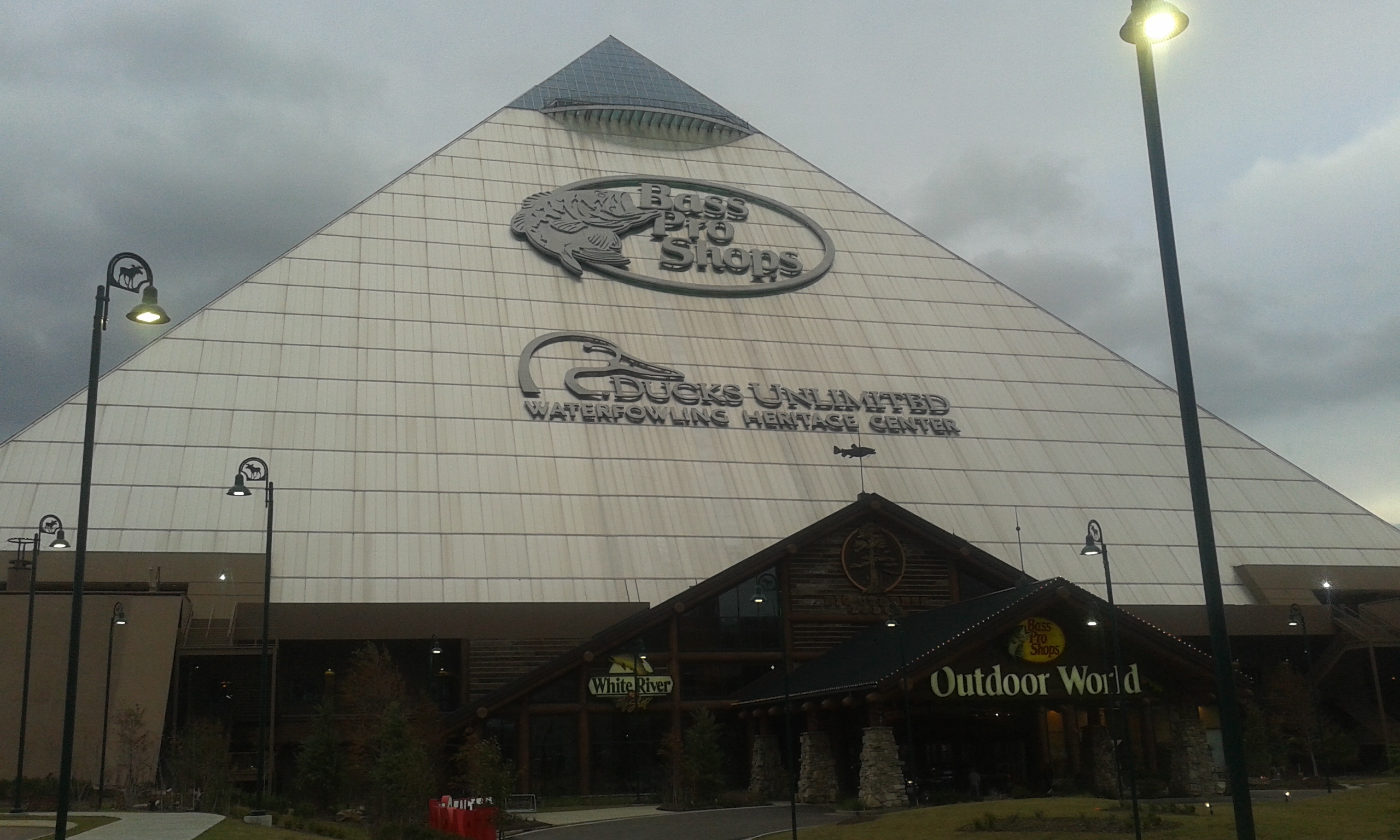 Bass Pro Shops, Ducks Unlimited Waterfowling Heritage Center